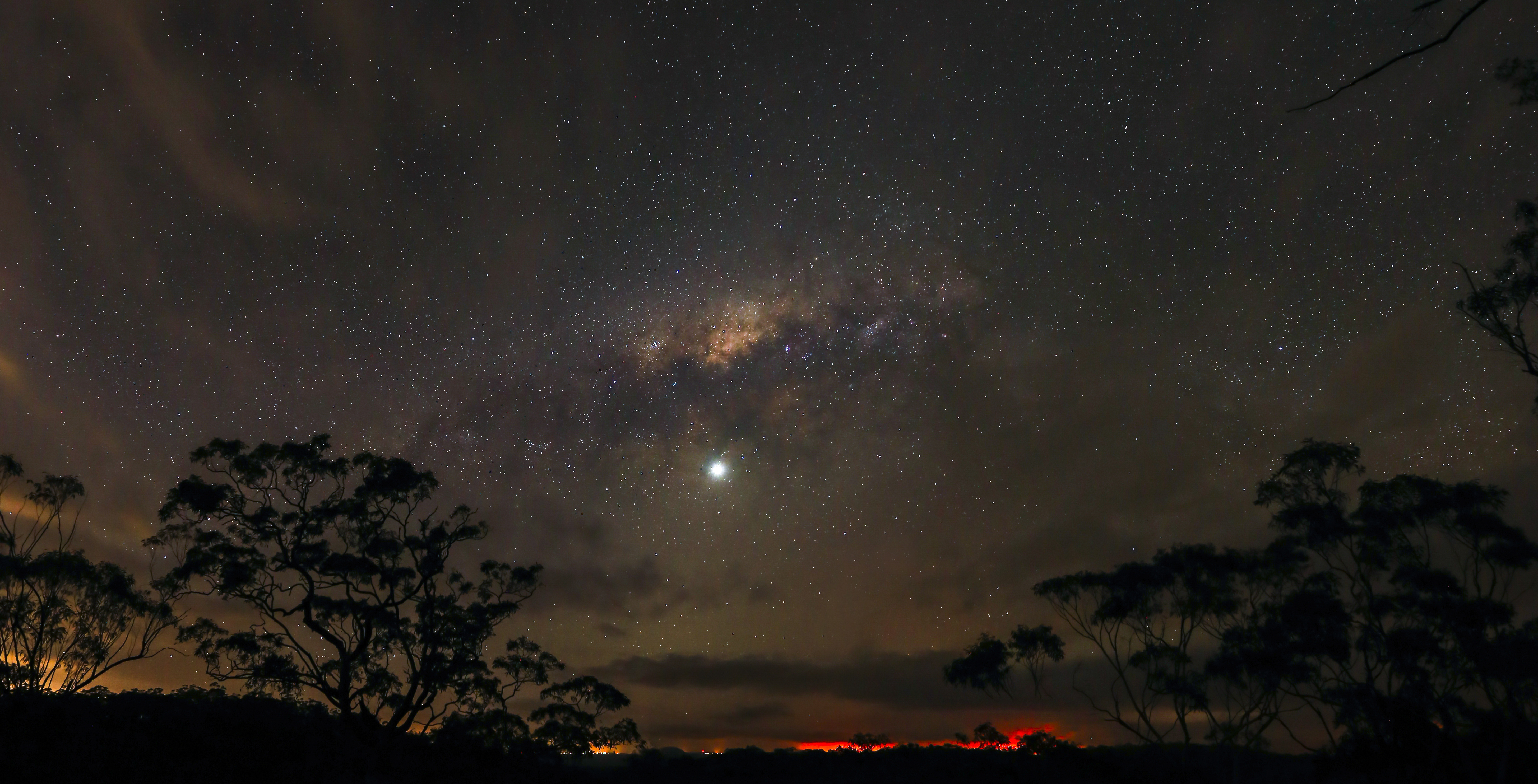 Took this photo during one of the worst periods of bush fires that New South Wales has ever experienced. Venus is also clearly visible near the galactic centre as well. I got home and the panorama didn't take too long to stitch then I realised the whole night I was shooting in jpeg and not RAW. Well and truly kicking myself right now....